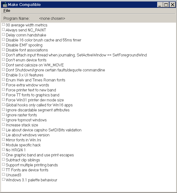 Screenshot of MkCompat (Make Compatible) Advanced Options, an application included in Windows 9x operating systems. I took the screenshot myself.